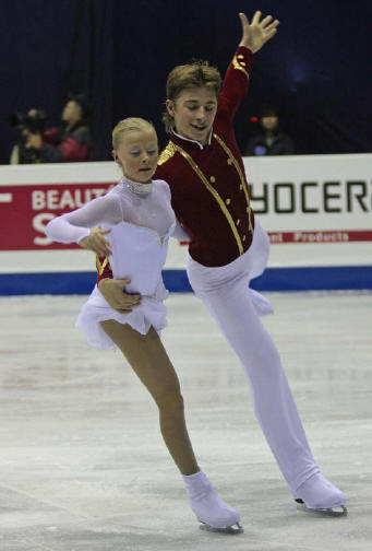 Anastasia MARTIUSHEVA and Alexei ROGONOV (rus).Grand Prix Final 2008 – Juniors - Pairs